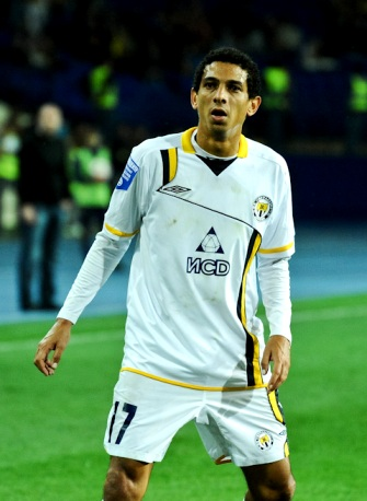 Zé Soares is a Brazilian football player